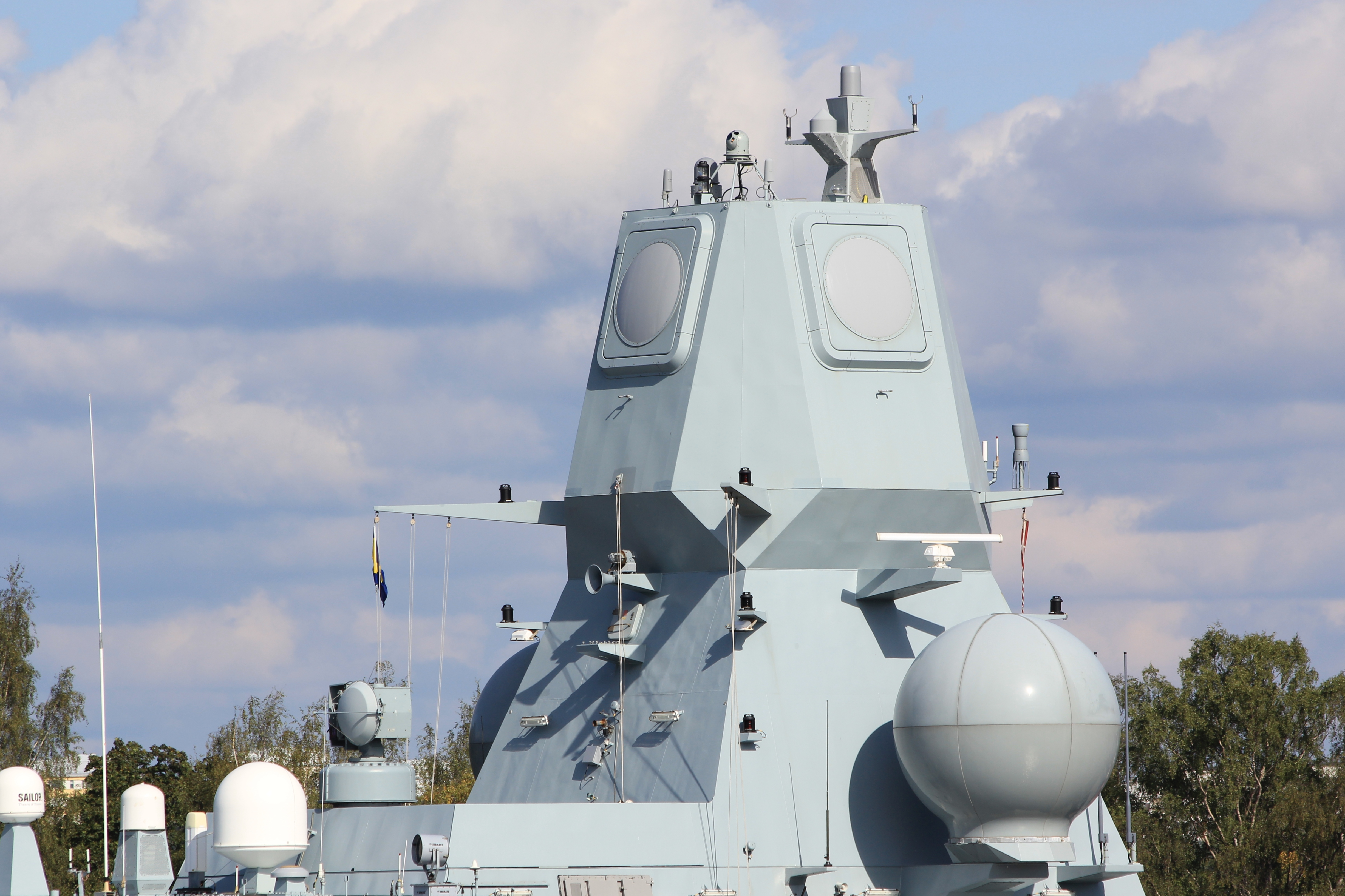 APAR radar of Danish Iver Huitfeldt-class frigate Peter Willemoes (F362) in Aura river in Turku during the Northern Coasts 2014 exercise public pre sail event.